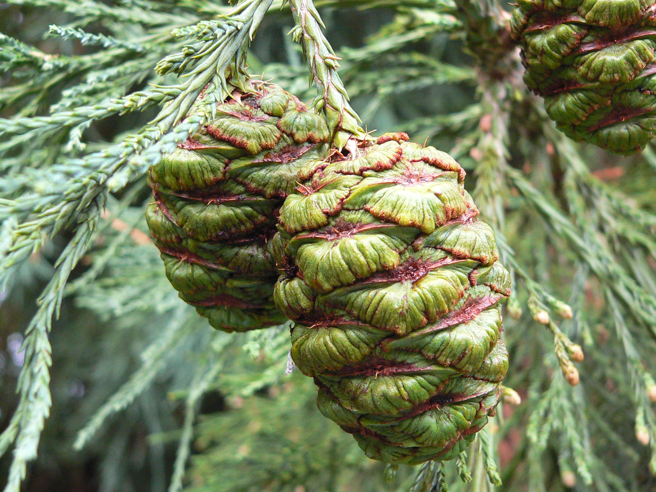 Immature seed (female) cones of Sequoiadendron giganteum, Portland, Oregon, October